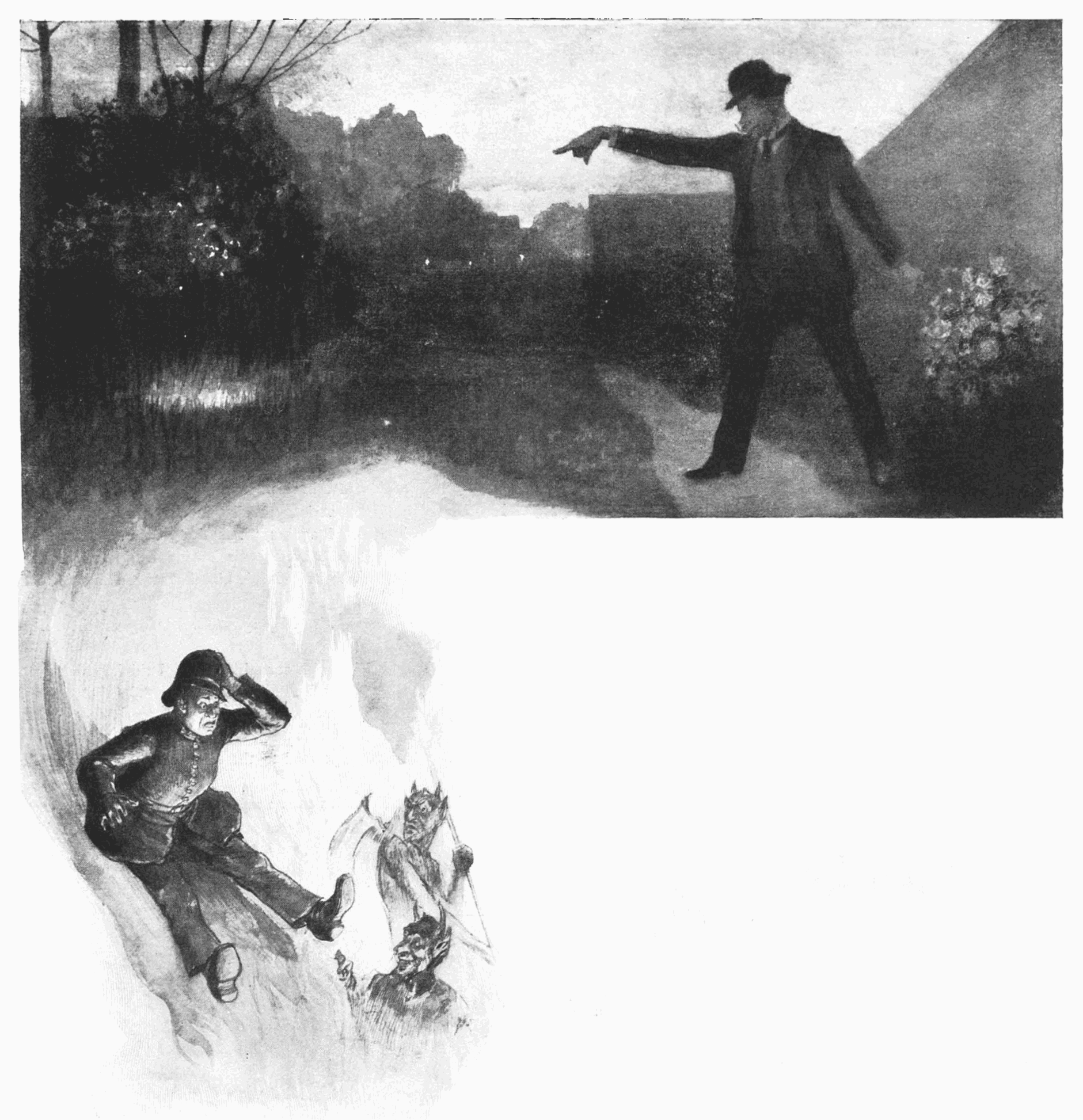 Illustration by Amédée Forestier from H.G. Wells' short story "The Man Who Could Work Miracles", published in The Illustrated London News; Summer 1898. Orginal caption / oryginalny opis